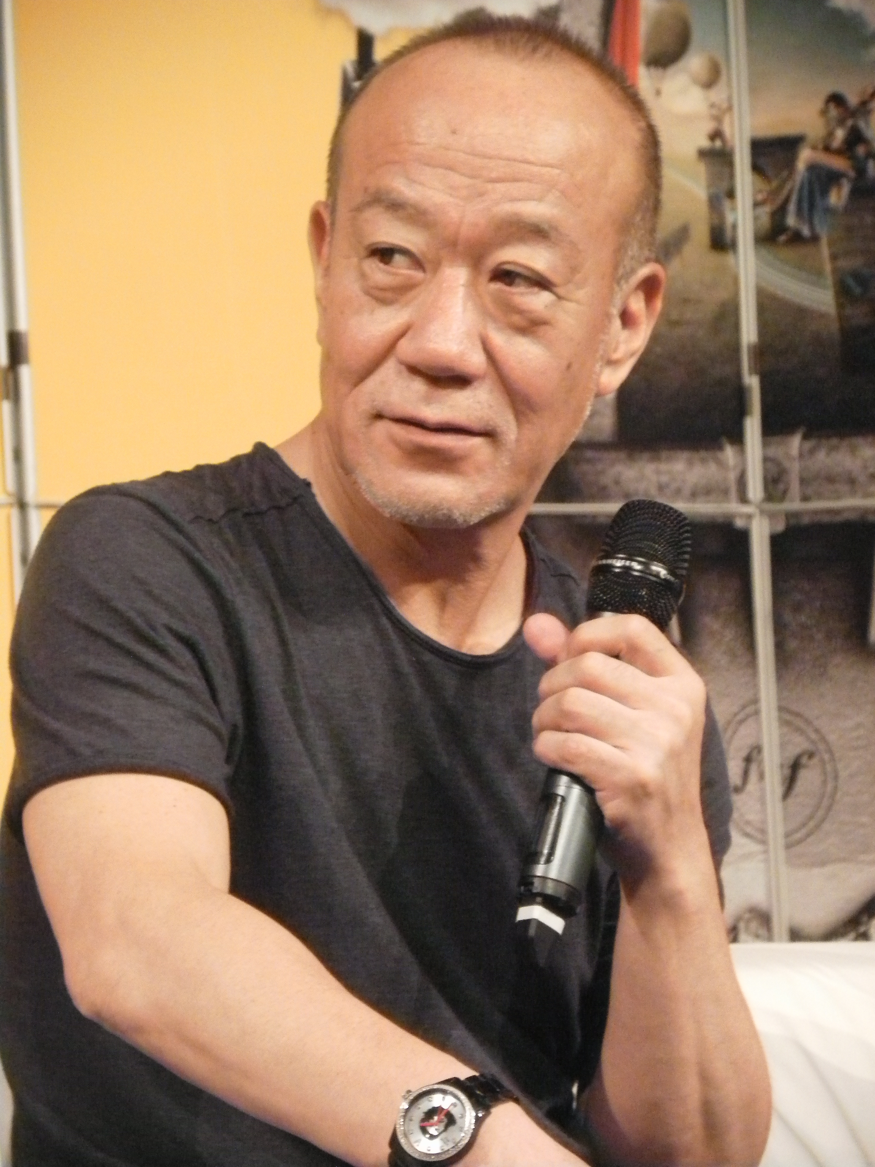 Joe Hisaishi in Krakow, 2011